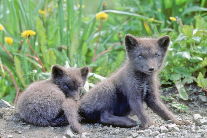 Alaska Maritime National Wildlife Refuge Photo: Mike Boylan, USFWS